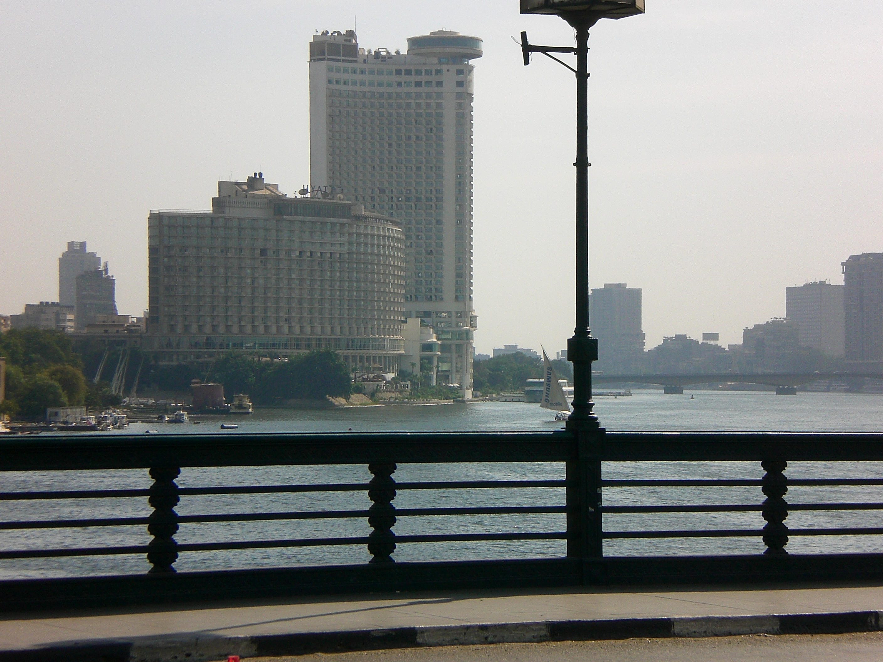 The El-Manial district on Rawda Island, the Grand Hyatt Cairo, and the Nile, seen from the downtown Qasr al-Nil Bridge.